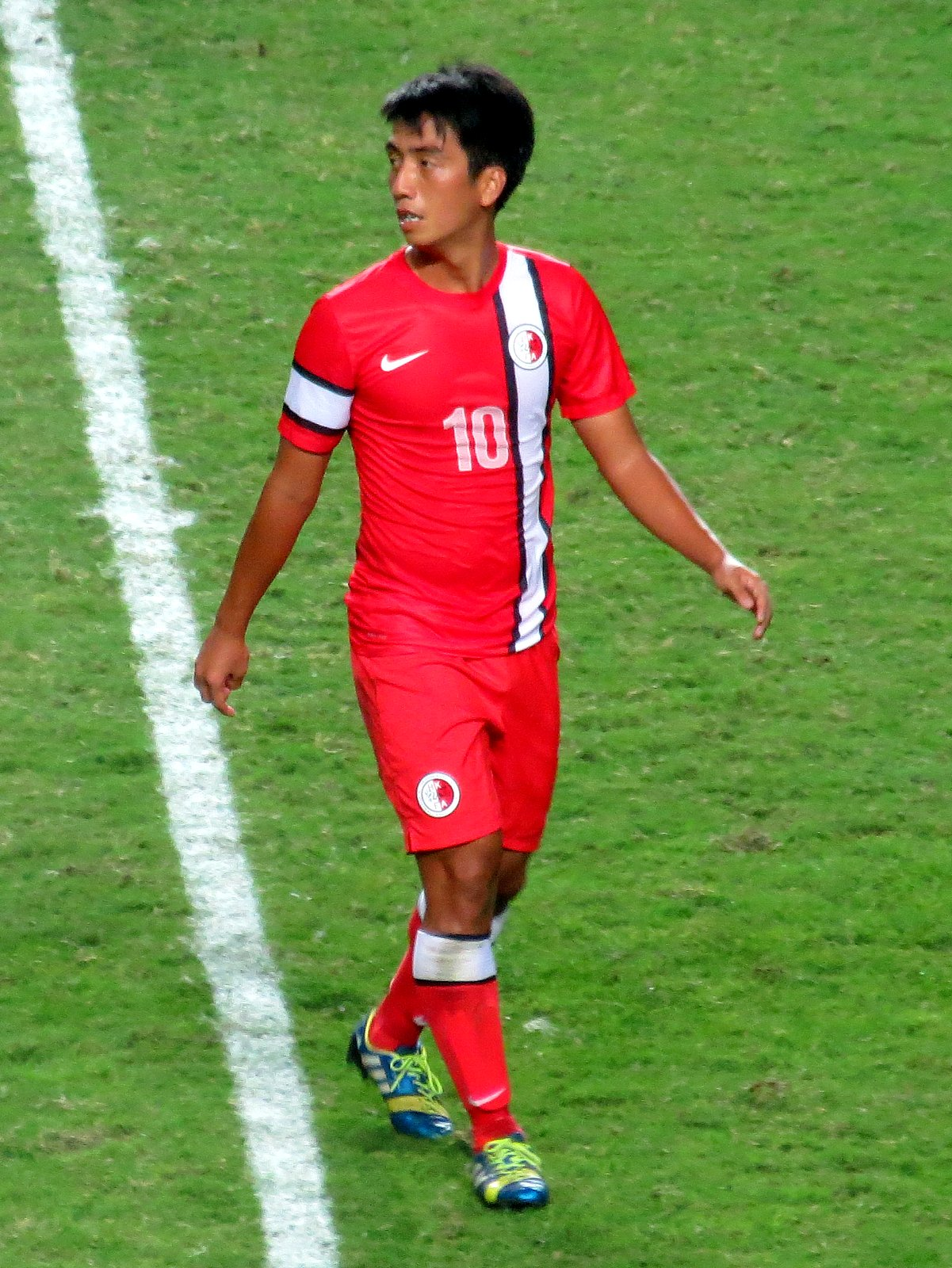 Lam Ka Wai playing for Hong Kong national football team against UAE on 15 October 2013. 中文（香港）: 林嘉緯代表香港足球代表隊在2013年10月15日對戰阿拉伯聯合酋長國足球隊。